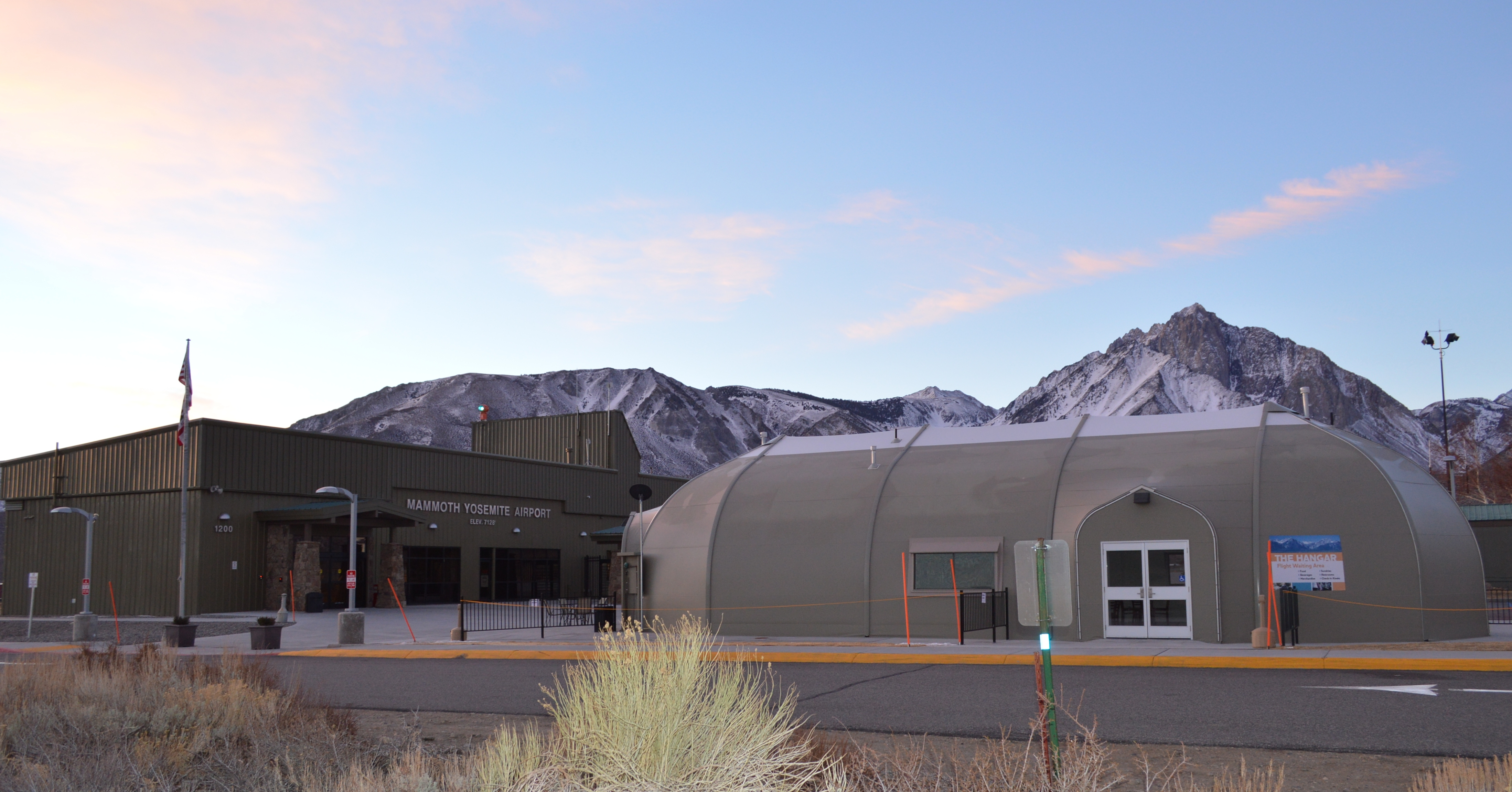 Mammoth Yosemite Airport, also known as Mammoth Lakes Airport, shortly before sunrise.